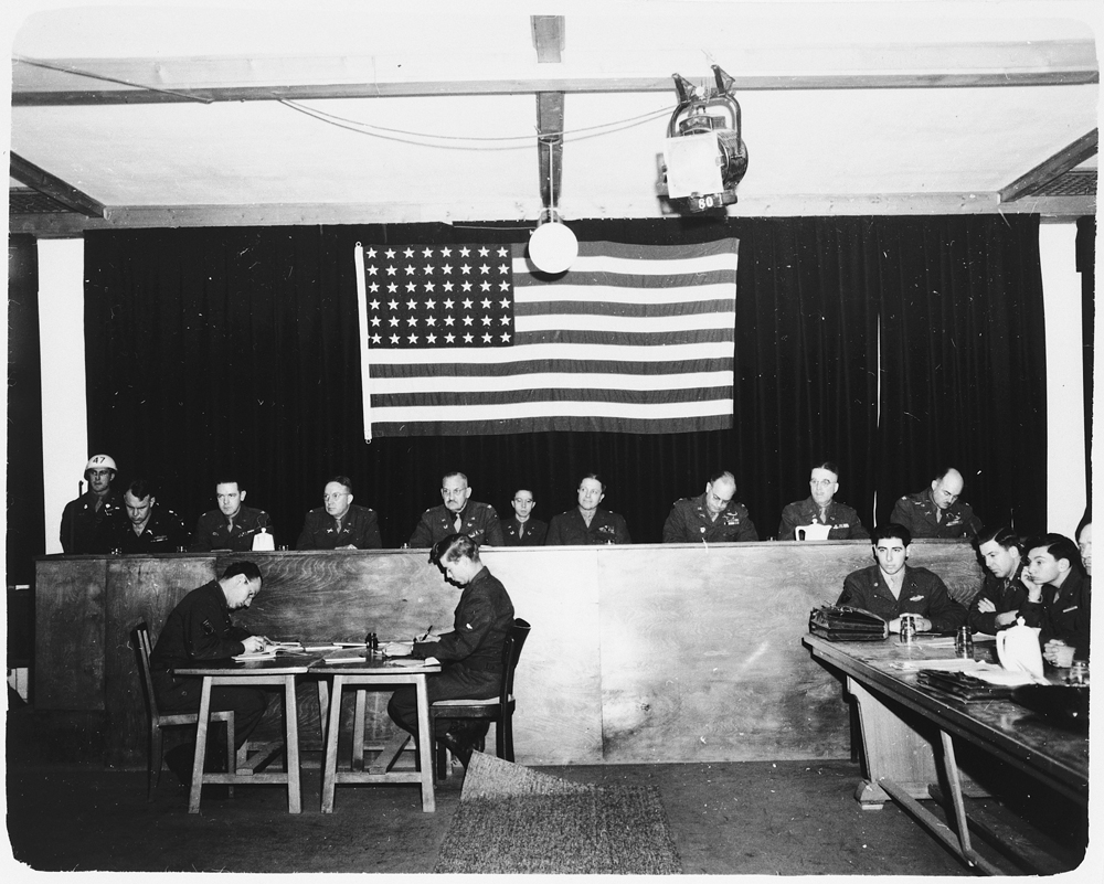 US Army Trials - Concentration Camp Dachau, View of the judges bench of the Dachau trial, Nov 15, 1945 - Dezember 13, 1945